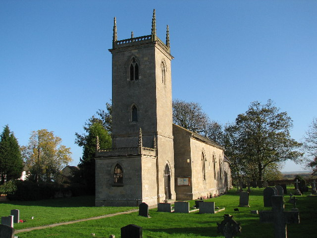 St Martin's parish church, Stubton, Lincolnshire, seen from the west